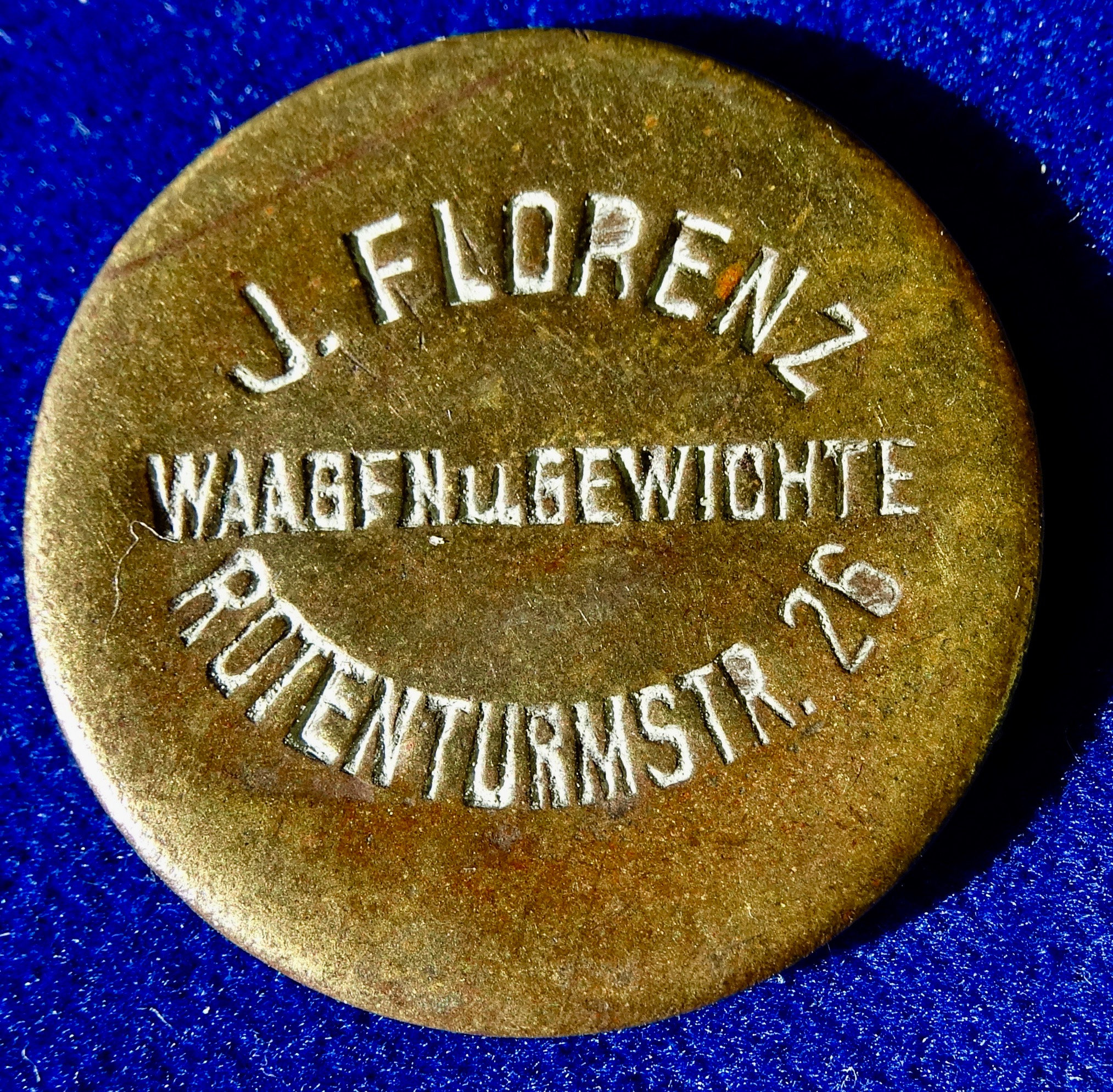 Reference mass of Josef Florenz, Vienna, scales and weights factory about 1900. Bronze, d. = 27 mm, 6.21 grammes. 3 lines: 3 lines: "J. FLORENZ WAAGEN u. GEWICHTE ROTENTURMSTR. 26"/ "PATENT" written backwards. Condition: VERY FINE.